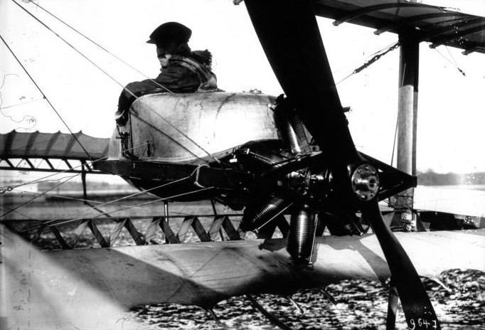 Detail of Louis Paulhans 1910 aircraft design, sold to the British War Office.